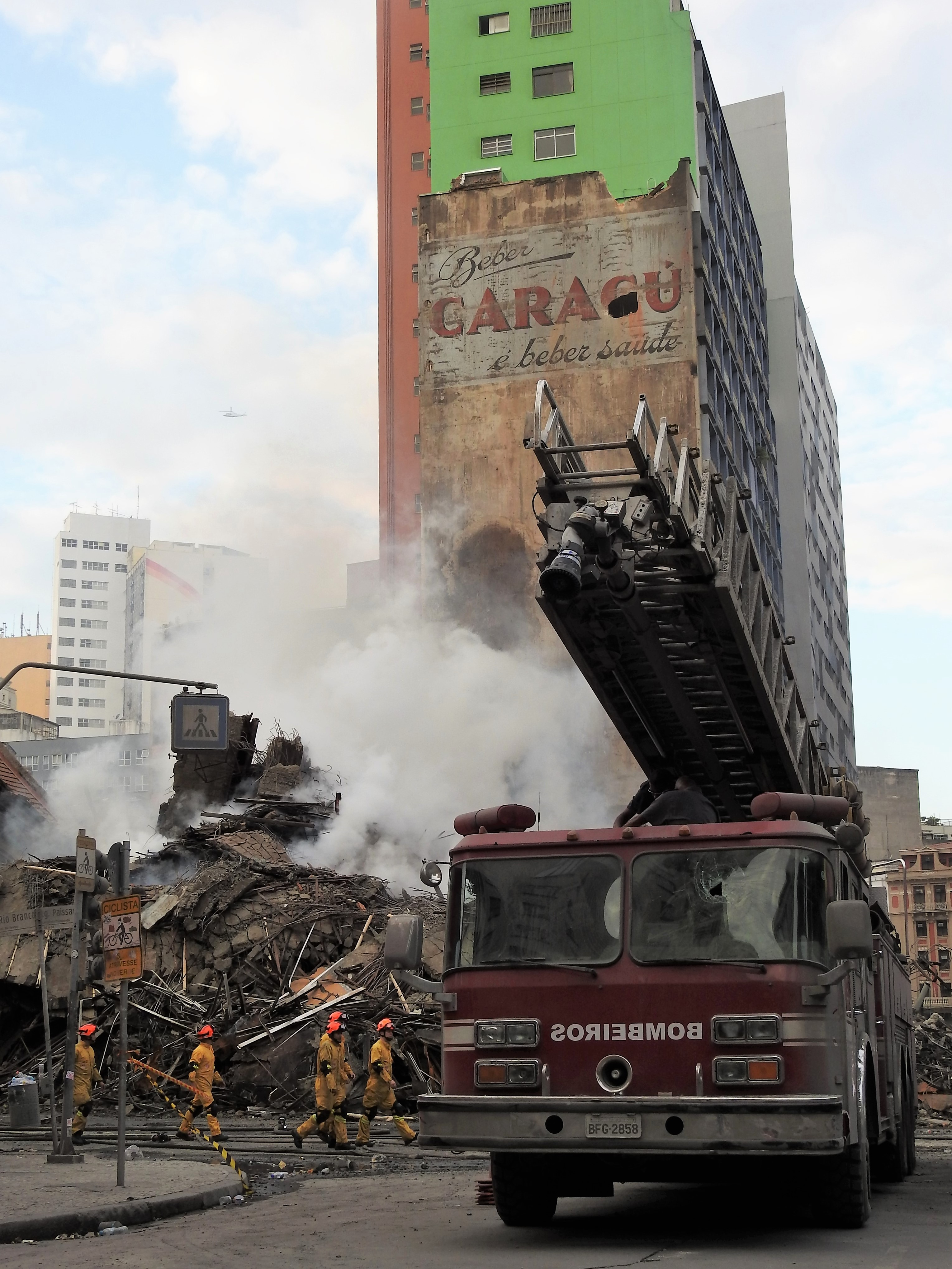 The Wilton Paes de Almeida Building (Portuguese: Edifício Wilton Paes de Almeida) was a high-rise building in Largo do Paiçandu, São Paulo, Brazil, that was built in the 1960s. It caught fire and collapsed on 1 May 2018. The fire started on the fifth floor at 4.20am GMT (1.20am local time) on 1 May 2018, and the building collapsed 90 minutes later. The cause of the fire is thought to be a gas explosion. The fire spread to an adjacent building, which was not in danger of collapsing.